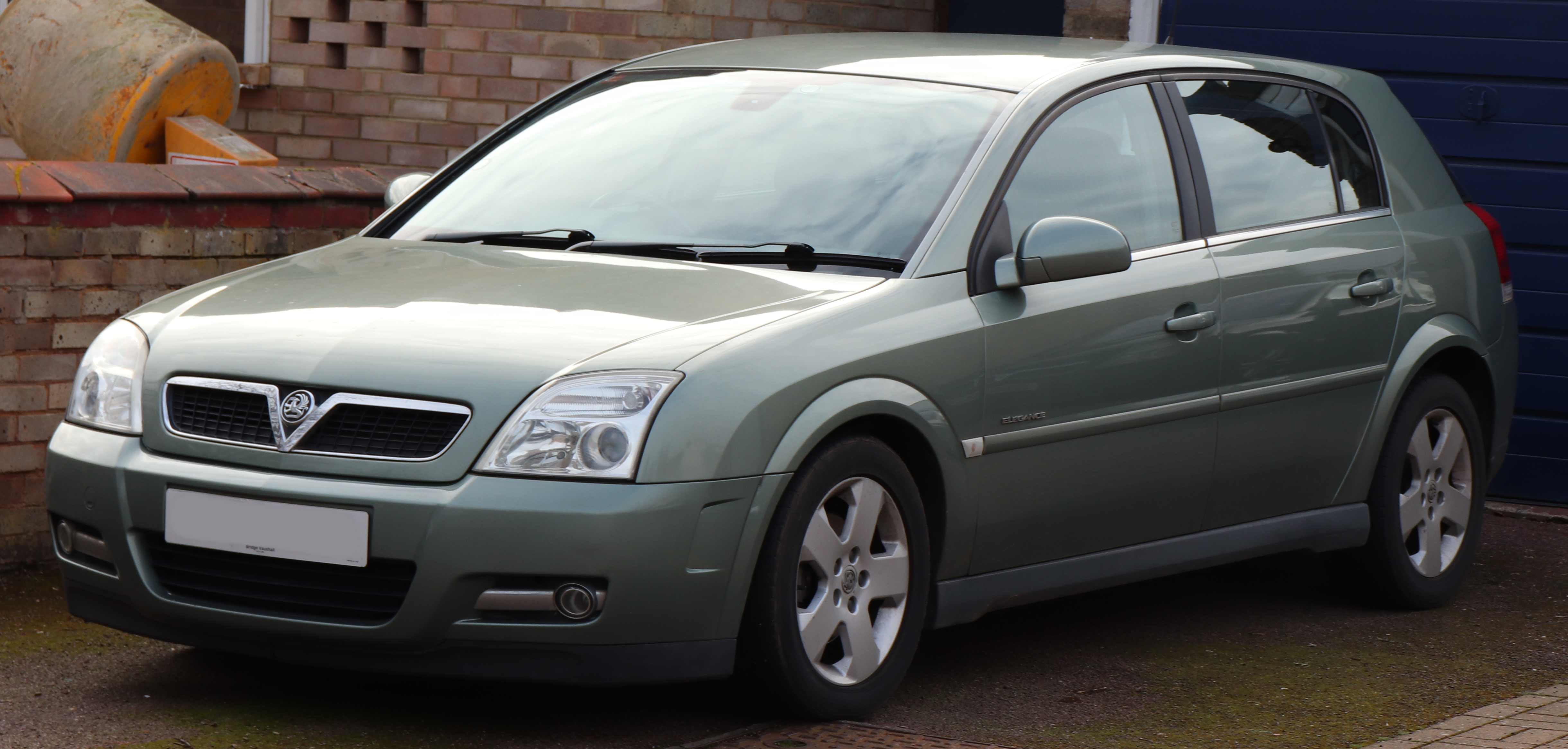 2004 Vauxhall Signum Elegance DTi 2.0 Taken in Leamington Spa